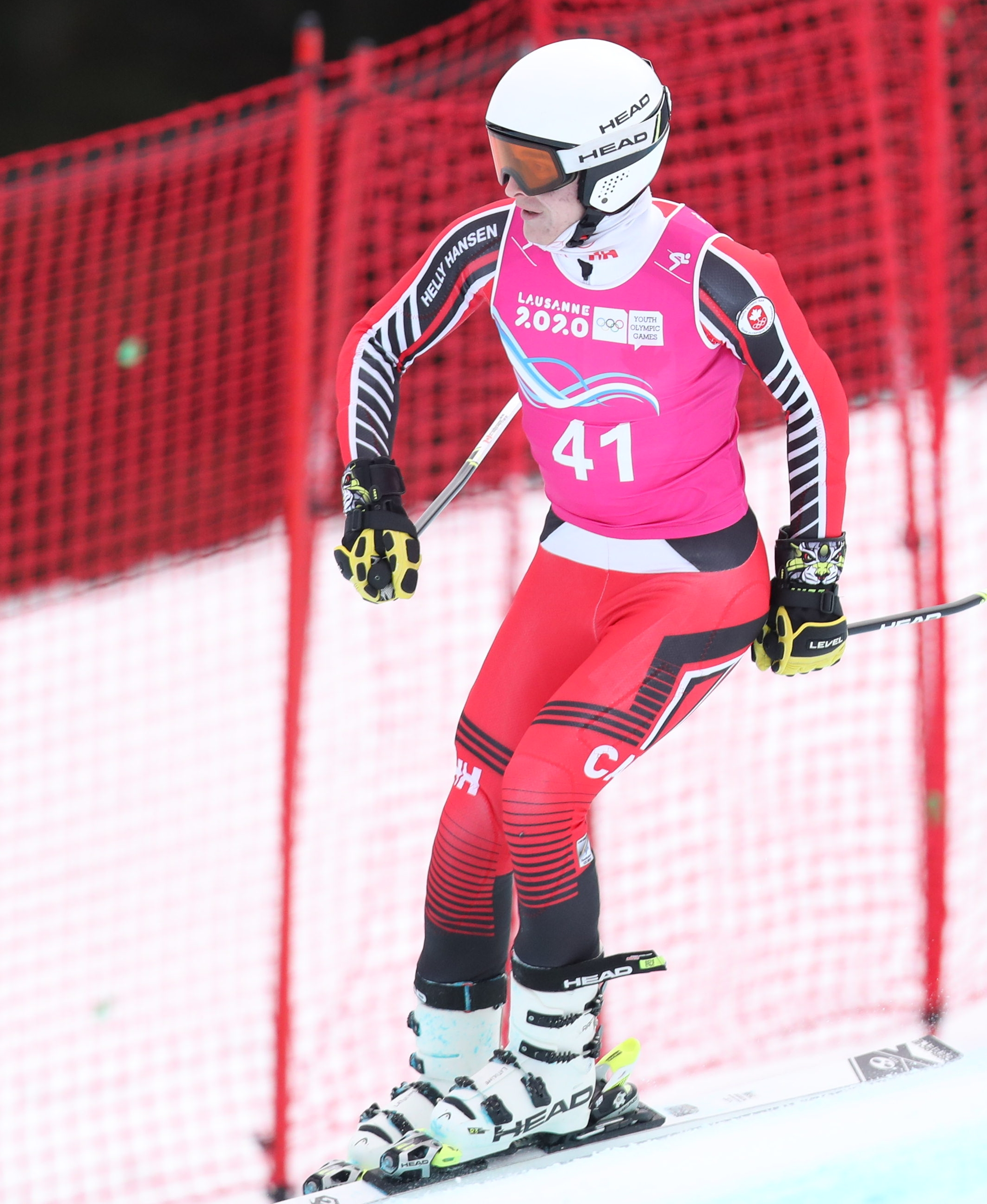 Men's Super G at the 2020 Winter Youth Olympics in Lausanne